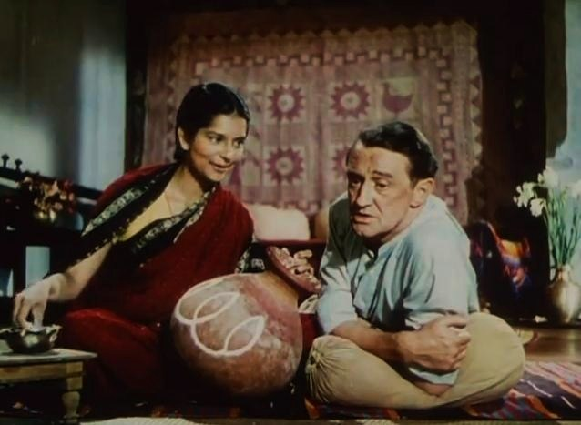 Radha Sri Ram (aka Radha Burnier) & Arthur Shields in The River - trailer (cropped screenshot)